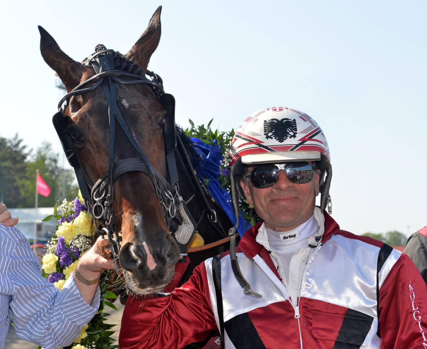 Mosaique Face and Lutfi Kolgjini